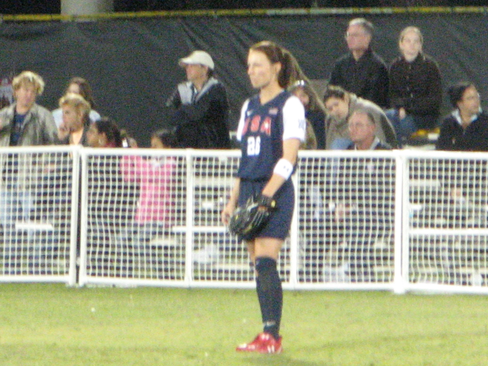 Caitlin Lowe, Altamonte Springs 0208